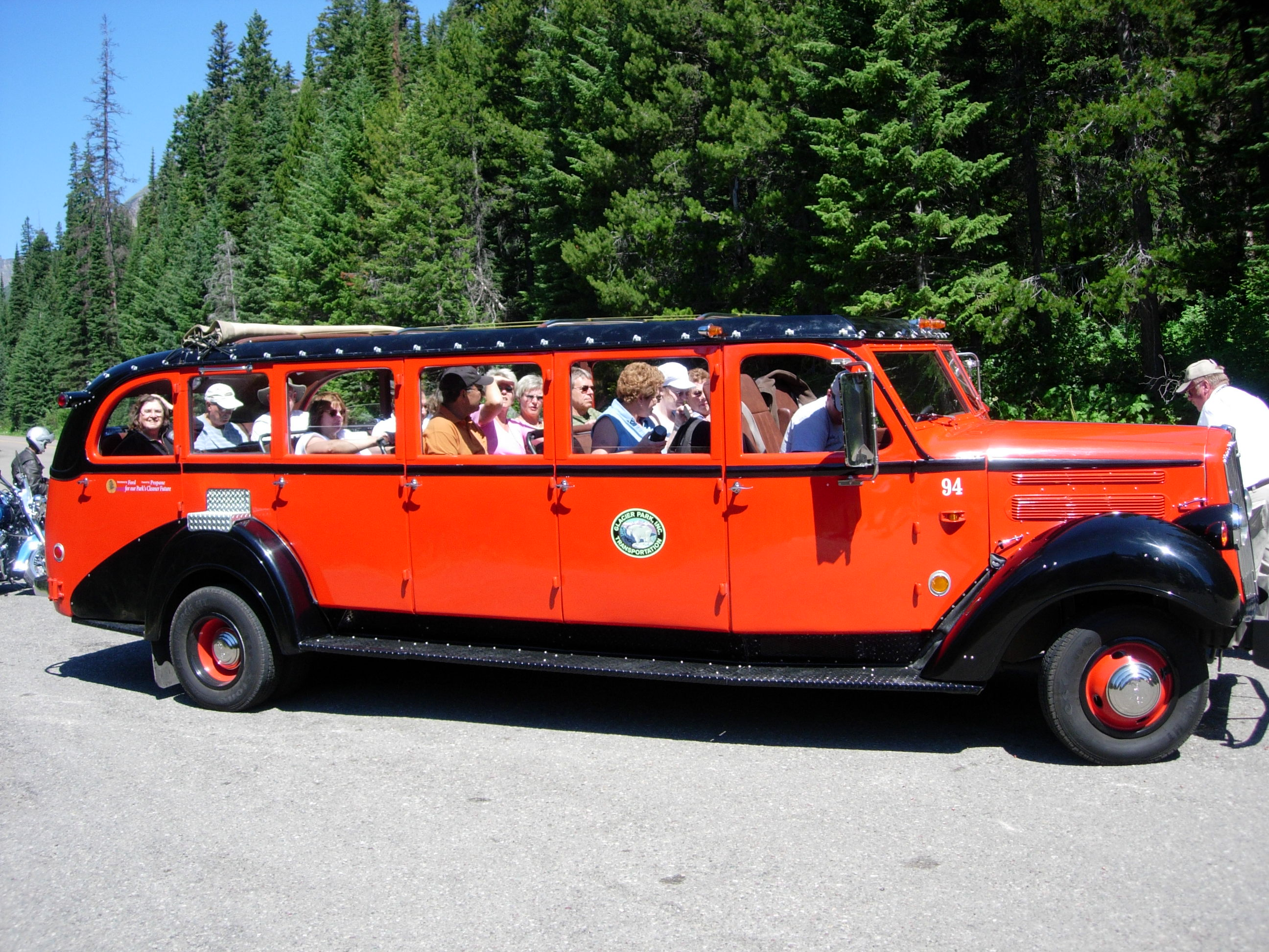 Tour bus in Glacier National Park, Montana, USA. These red "jammers" are from the 1930s, refurbished several times and they run now on propane gas. original caption: Classy, hmm?